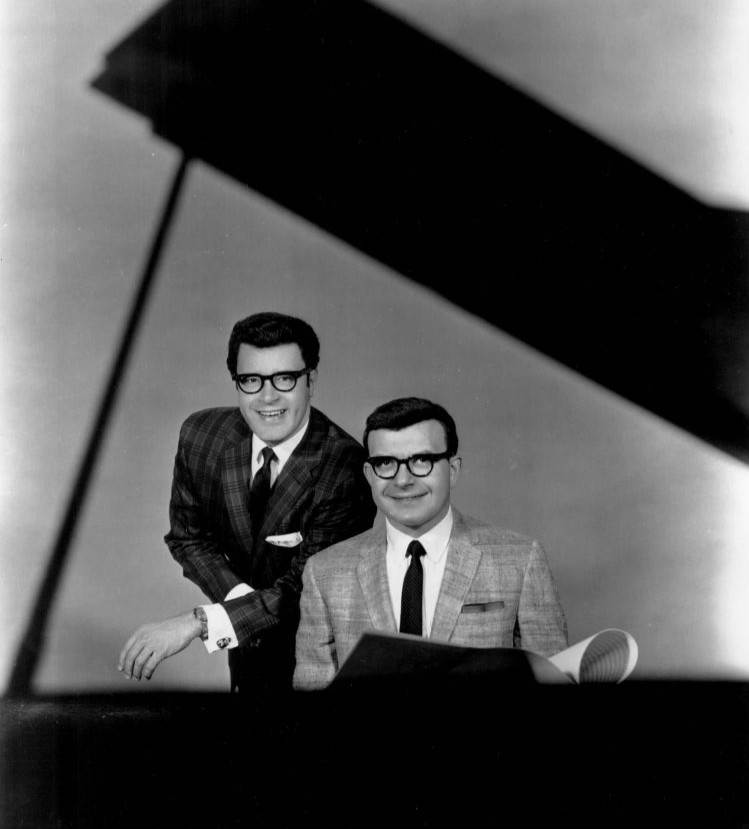 Photo of Arthur Ferrante and Louis Teicher who were known as Ferrante & Teicher.